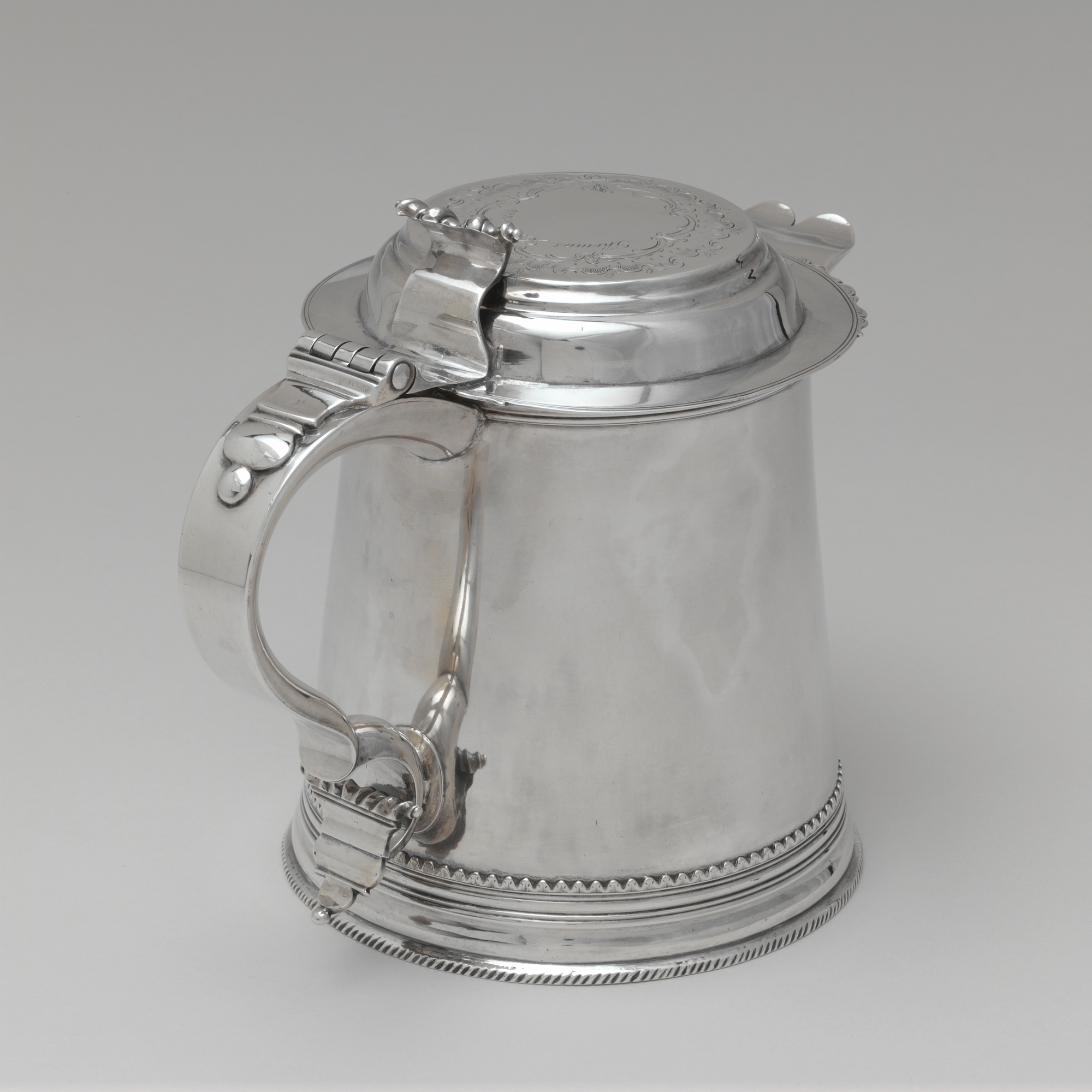 American; Tankard; Silver